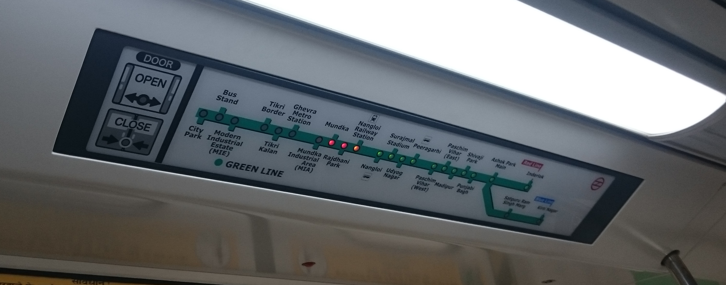 Green line Delhi metro display board